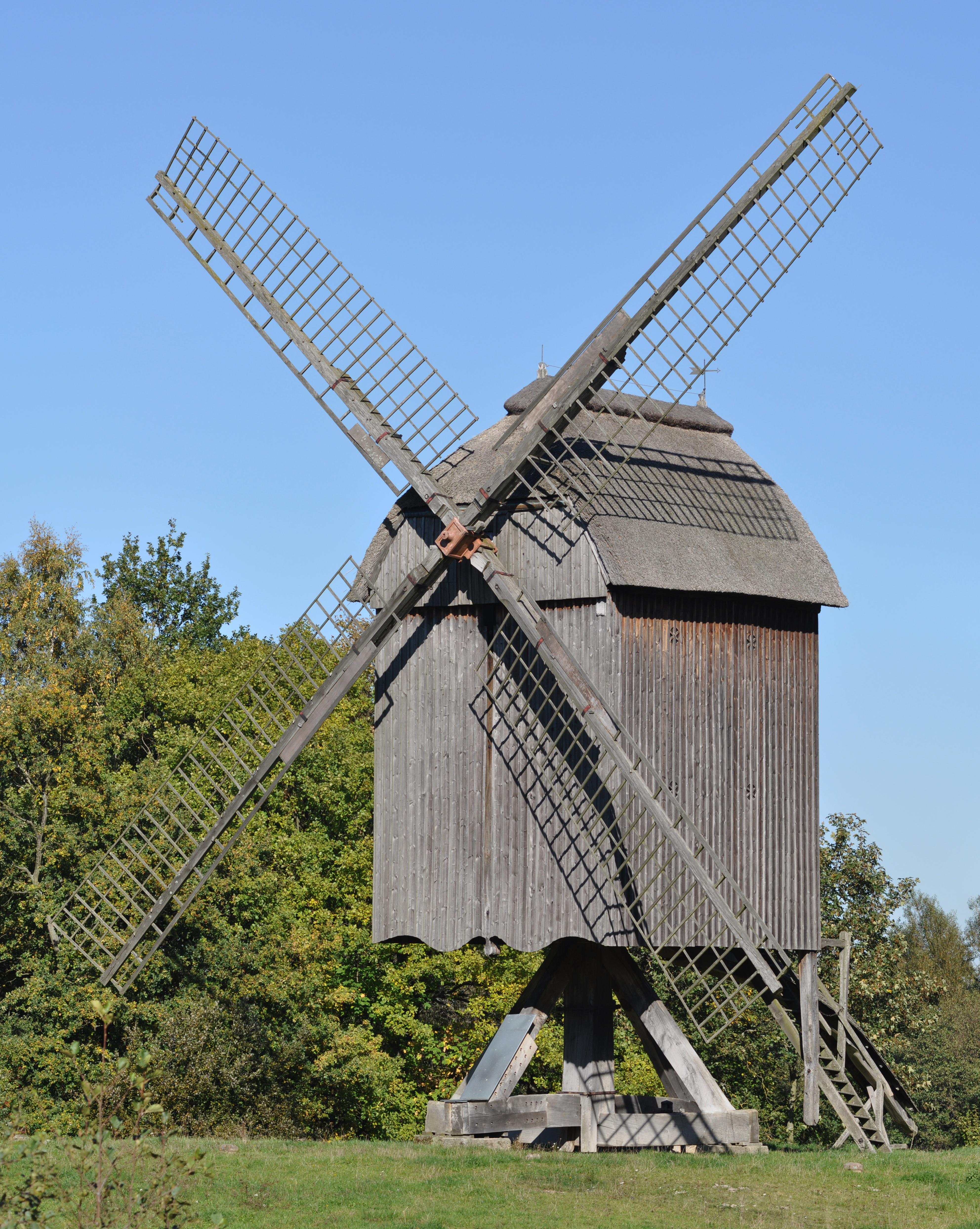 Post mill in Hessenpark, Germany.